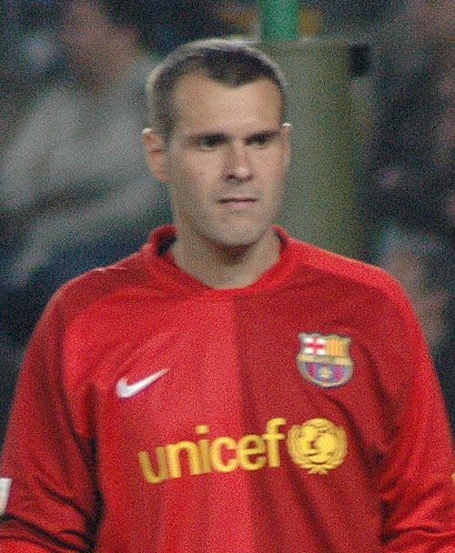 Albert Jorquera, FC Barcelona's goalkeeper, during the match FC Barcelona-Getafe CF.